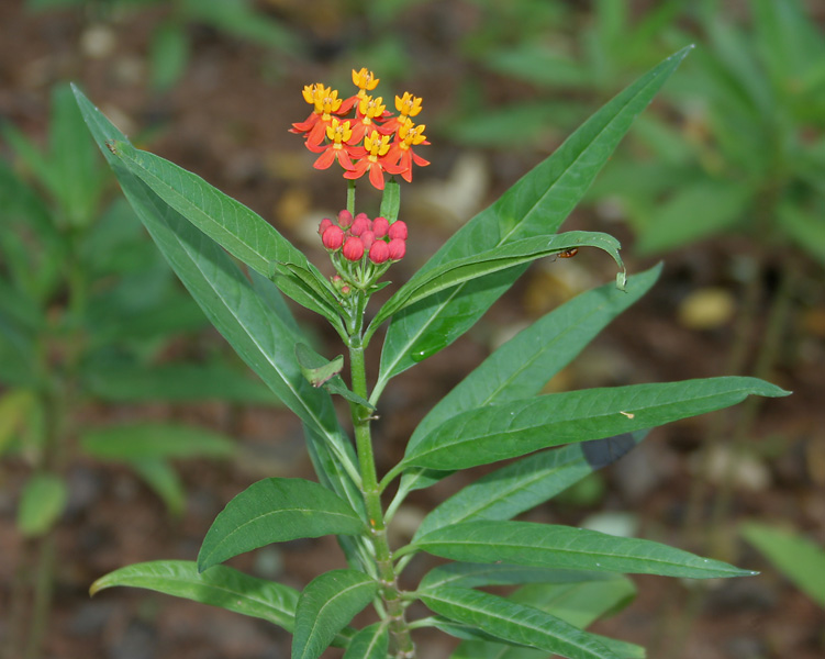 Asclepias curassavica - Mexican Butterfly Weed, Scarlet Milkweed, Bloodflower, Silkweed, Indian root • Hindi: काकाटुन्डी Kakatundi • Manipuri: ক্ৰিশ্নচূৰা Krishnachura • Marathi: पिवला चित्रक Pivla chitrak, Halad kunku • Kuki: Langthlei - in Hyderabad, India.